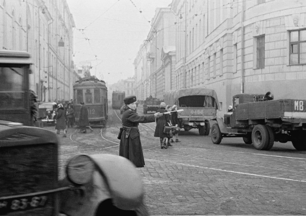 “A traffic guard on a Moscow street”. A policewoman on a Moscow street.